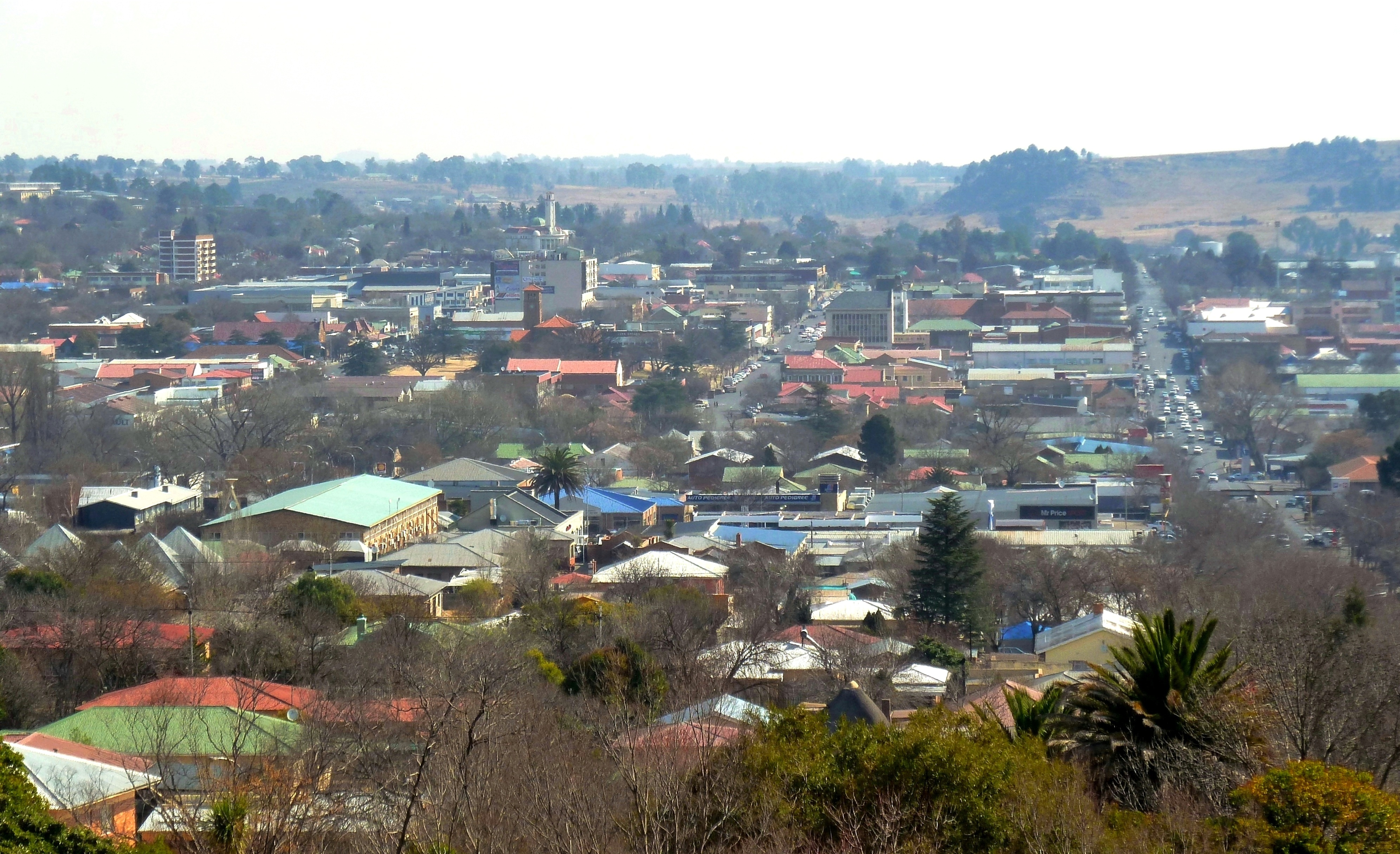 View over Bethlehem, looking west, in the Free State, South Africa